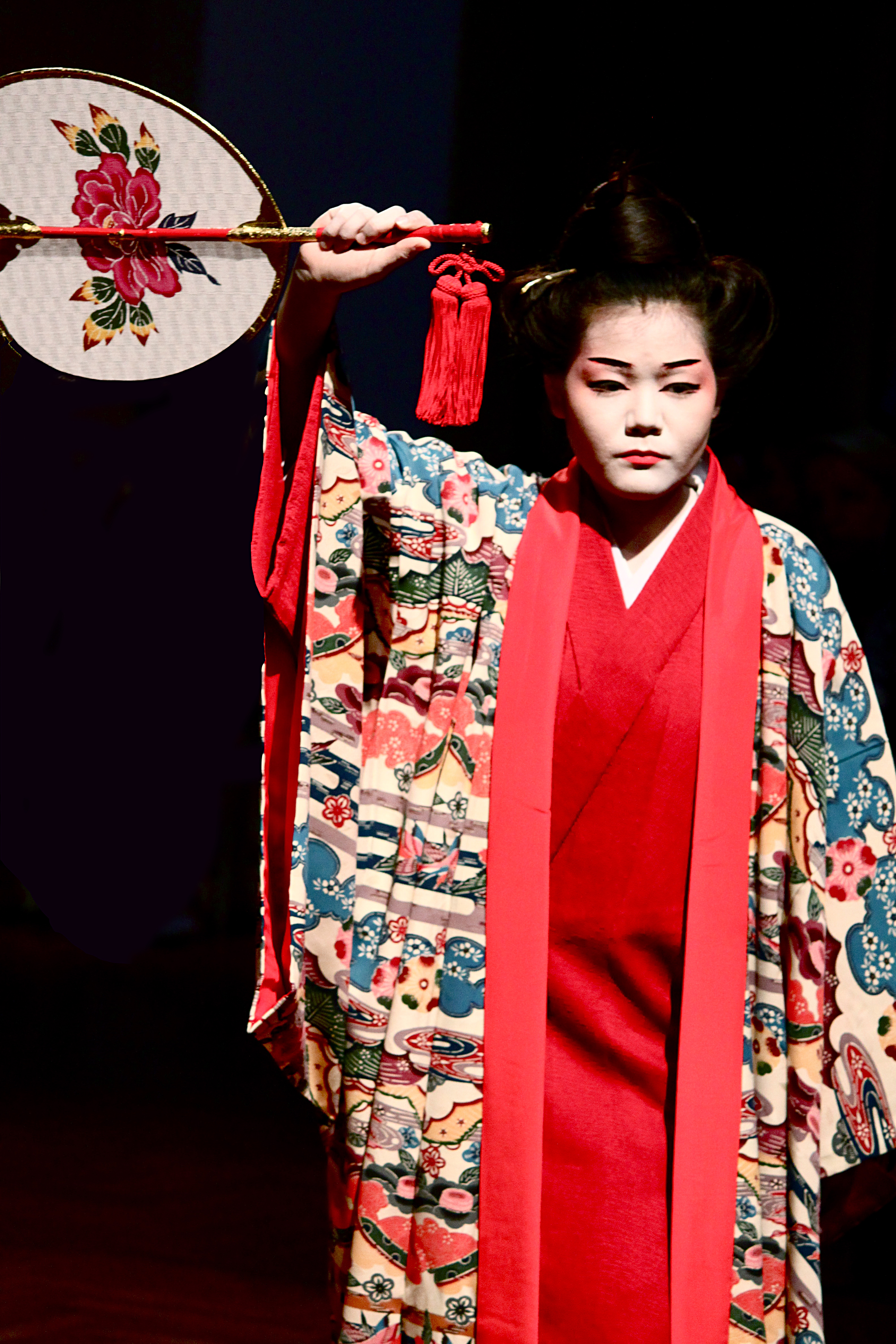 A woman in bingata kimono performing some Okinawan dance